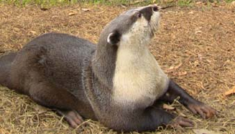 Congo Clawless Otter